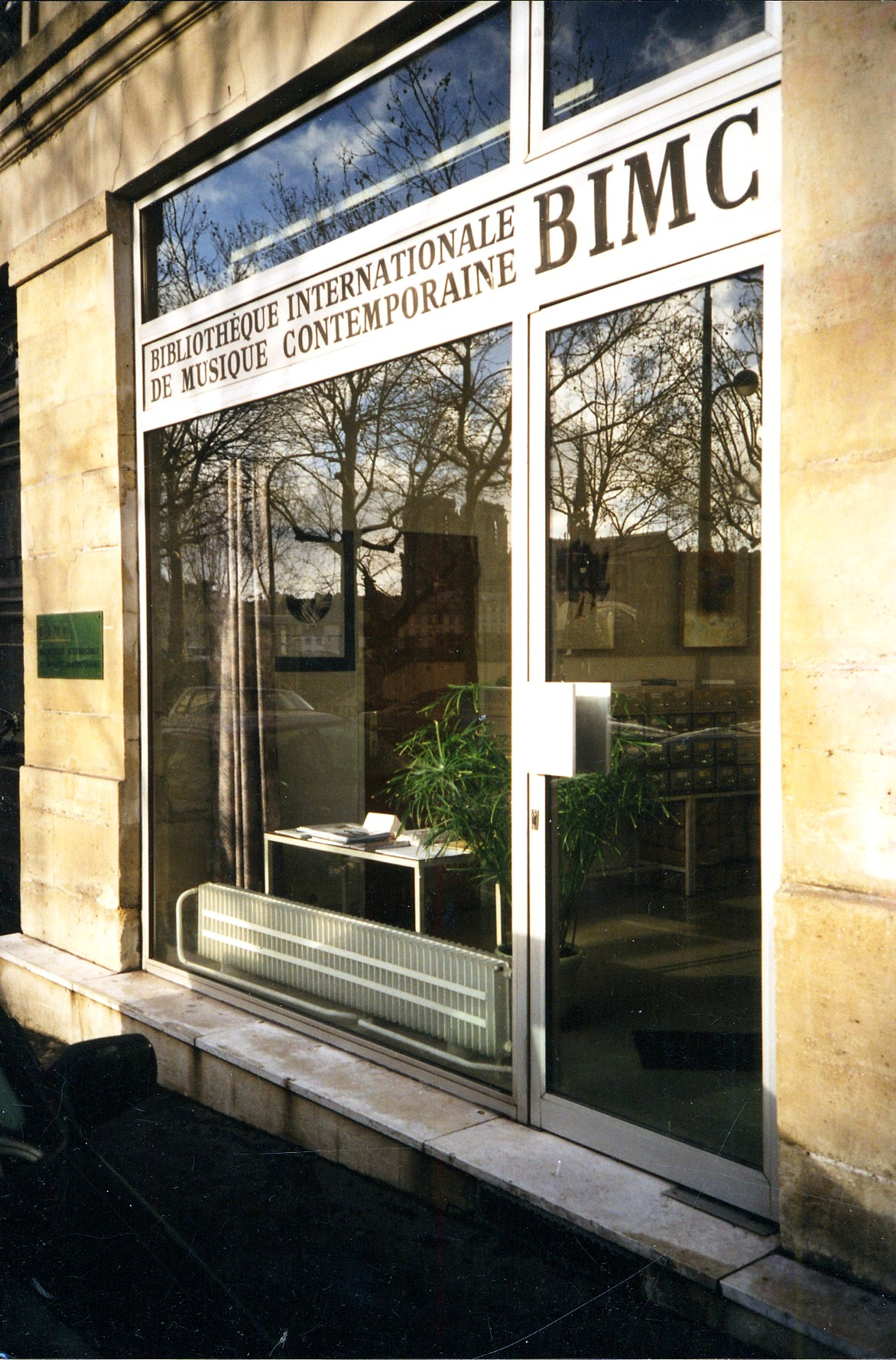 Facade of the B.I.M.C. at 52, rue de l'Hôtel de Ville, Paris 4, France (until 2002)